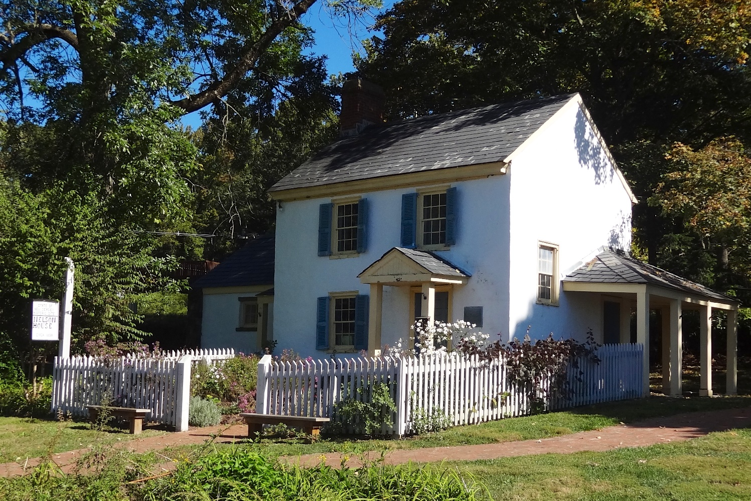 The Nelson House, part of Washington Crossing State Park, in Washington Crossing, New Jersey